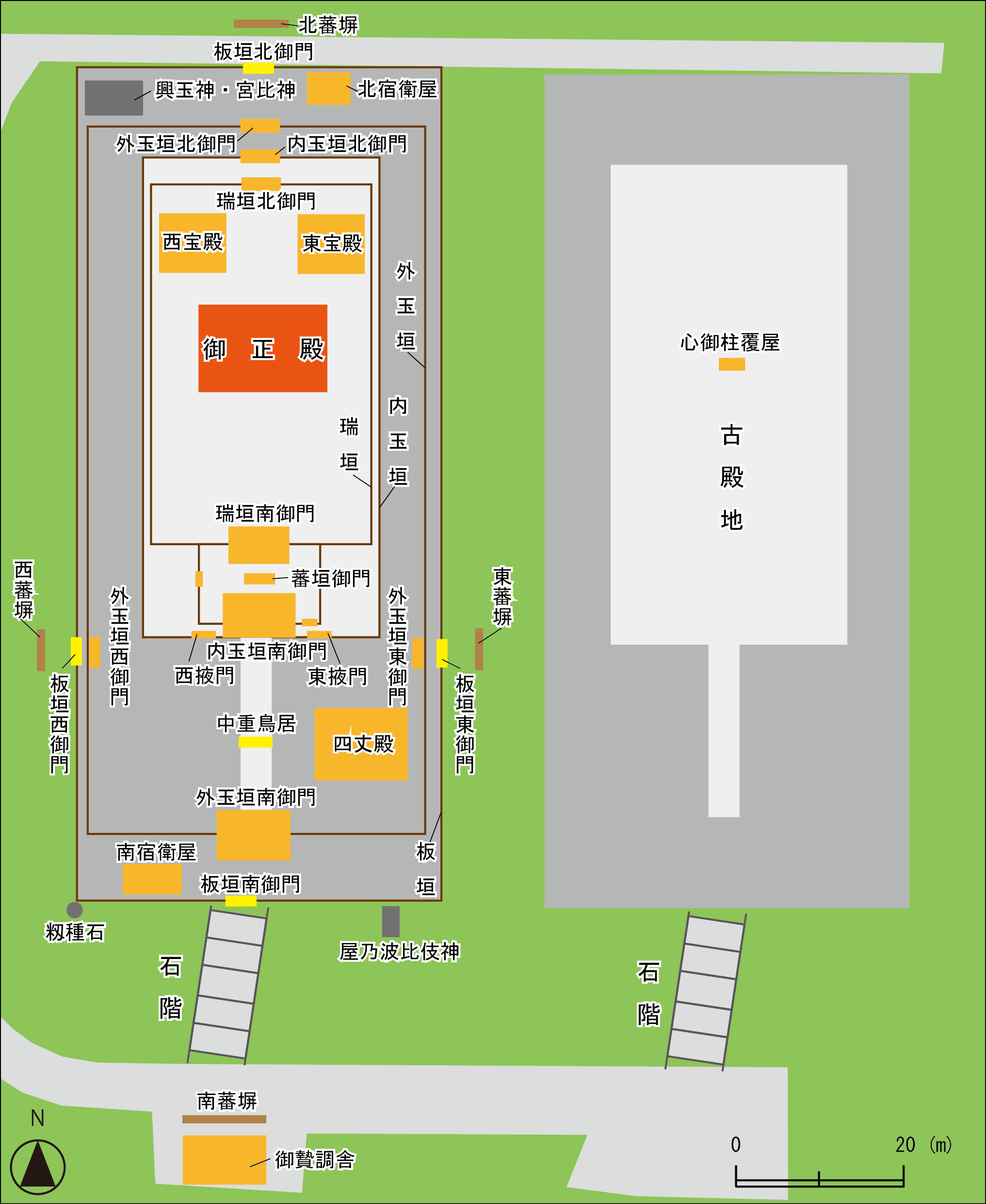 This map shows the placement of the major building in Ise Jingu Naiku. It shows the placement of 2013 to 2033.